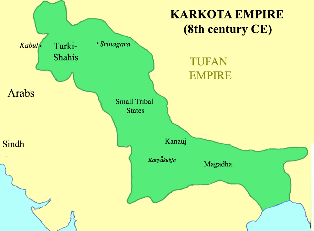 Extent of the Karkota Empire in 8th century CE